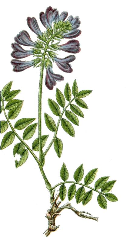 Hedysarium hedisaroides Original Caption Süssklee, Hedysarum obscurum